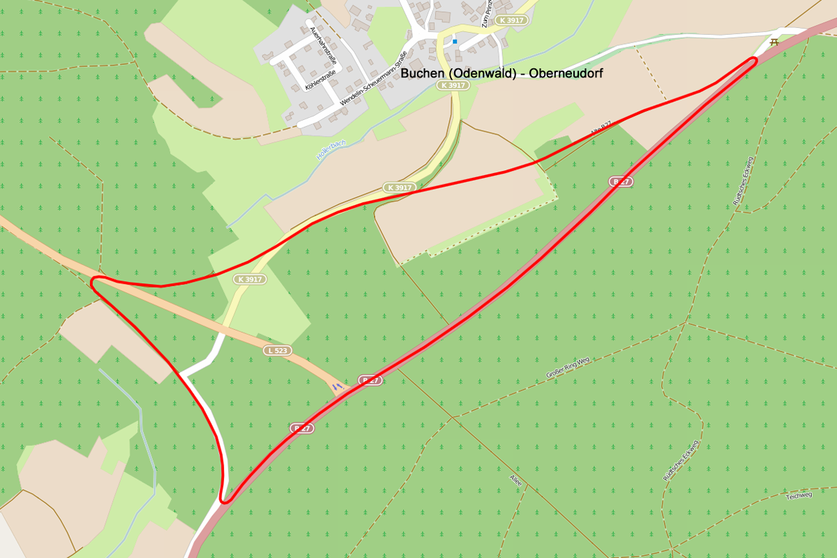 Map of the former motorcycle race track "Odenwaldring" near Oberneudorf, Buchen (Odenwald), Germany, based in OpenStreetMap